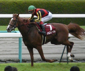 Orfevre at the 2011 Kobe Shimbun Cup horserace